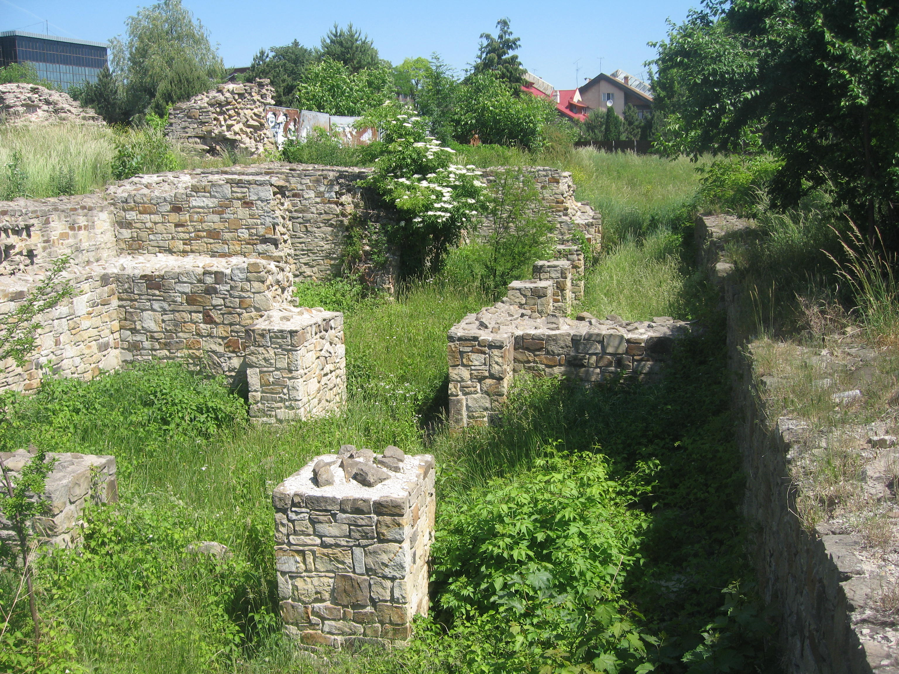 The Princely Court in Suceava.